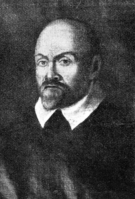 Giovanni Botero (1543-1617), philosopher